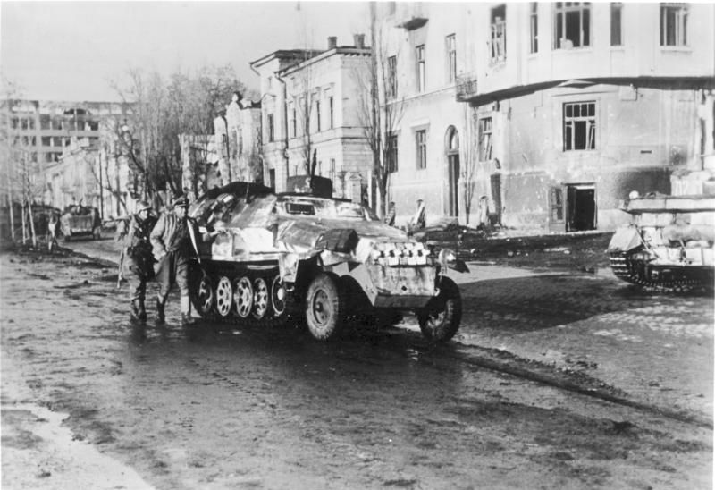 SS-Standartenführer Fritz Witt, the commander of a SS Panzer Grenadier Regiment and a recipient of the Knight's Cross with Oak Leaves, advances in the cover of an armoured personnel carrier along Sumskaya street (Сумская ул.) in Kharkov. The city was recaptured by the Waffen-SS on March 14, 1943.